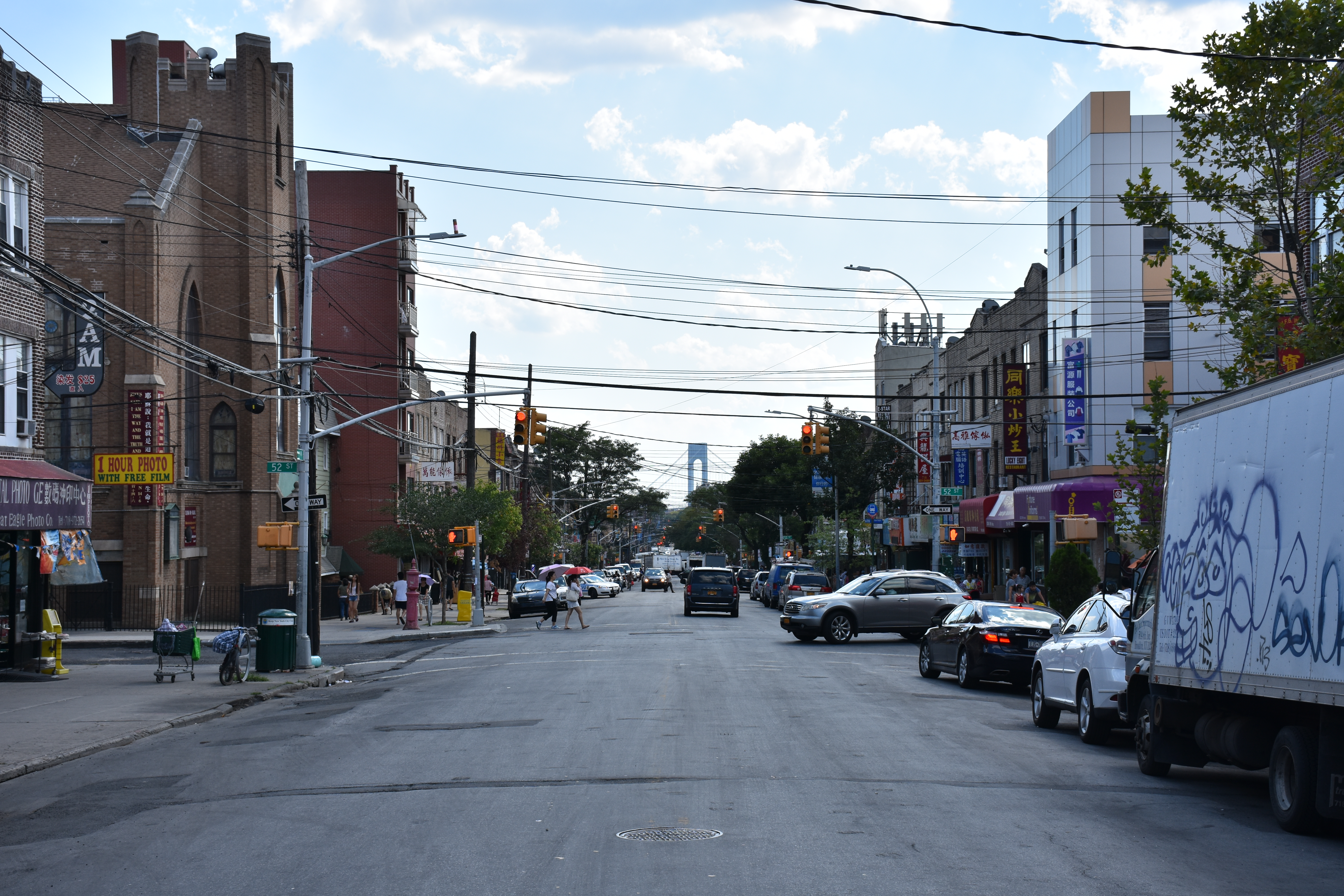 Sunset Park, Brooklyn looking south from 51st St